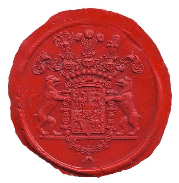 The Supreme Burgrave of the Bohemia Kinkdom autoritativ wafer,1836